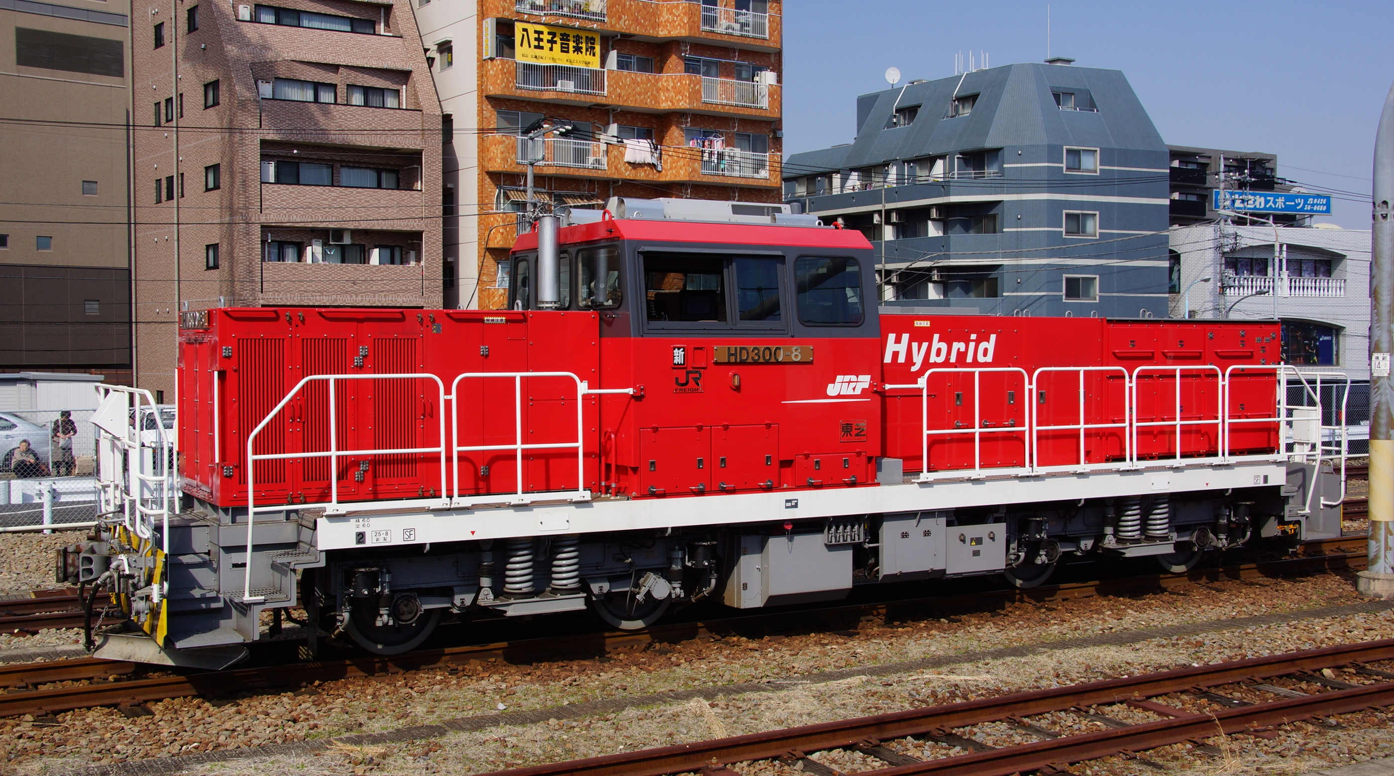 JR Freight Class HD300 hybrid diesel shunter HD300-8 at Hachioji Station